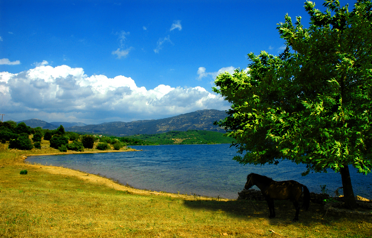 Ladonas lake, Greece